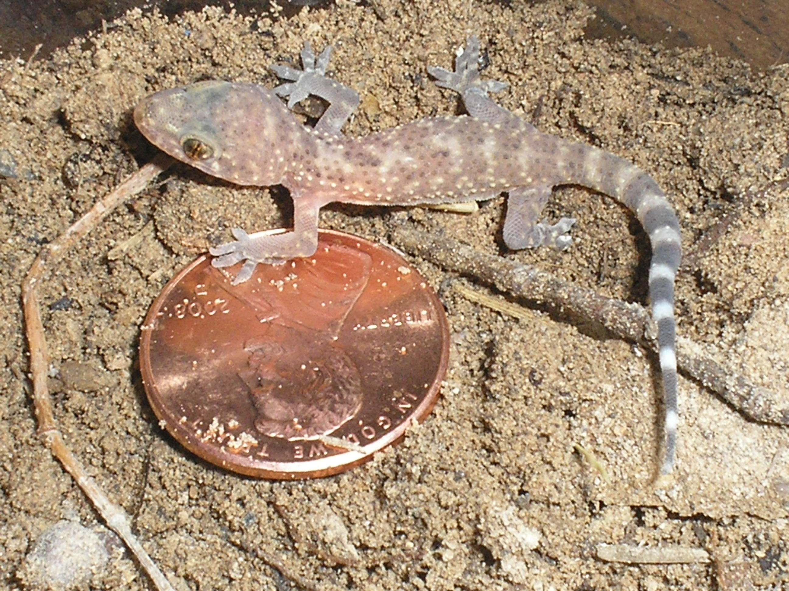 This photo shows the comparison of a juvenile house gecko to a penny. This image has currency in it to indicate scale. Using coins for scale is discouraged as it will require people unfamiliar with them to look up the dimensions or guess, both of which defeat the purpose of the object in the first place. Coins can also reinforce a geographical bias, and some coins' designs are copyrighted. Ideally, a photograph should include a ruler with the subject (example) or an added scale marking. SI ("metric") units are the most commonly used worldwide (see meter and centimeter). Images with coins to indicate scale Common coin diameters for reference: U.S. dollar: 1¢: 19.05 mm , 0.75 in 5¢: 21.21 mm , 0.84 in 10¢: 17.91 mm , 0.71 in 25¢: 24.26 mm , 0.94 in 50¢: 30.61 mm , 1.22 in $1: 26.5 mm , 1.02 in Canadian dollar: 1¢: 19.05 mm , 0.75 in 5¢: 21.2 mm , 0.83 in 10¢: 18.03 mm , 0.71 in 25¢: 23.88 mm , 0.94 in 50¢: 27.13 mm , 1.07 in $1: 26.5 mm , 1.02 in $2: 28 mm , 1.1 in Pound sterling: 1p: 20.32 mm , 0.8 in 2p: 25.91 mm , 1.02 in 5p: 18 mm , 0.71 in 10p: 24.5 mm , 0.96 in 20p: 21.4 mm , 0.84 in 50p: 27.3 mm , 1.07 in £1: 22.5 mm , 0.89 in £2: 28.4 mm , 1.12 in Euro: 1c: 16.25 mm , 0.64 in 2c: 18.75 mm , 0.74 in 5c: 21.25 mm , 0.84 in 10c: 19.75 mm , 0.78 in 20c: 22.25 mm , 0.88 in 50c: 24.25 mm , 0.95 in €1: 23.25 mm , 0.92 in €2: 25.75 mm , 1.01 in